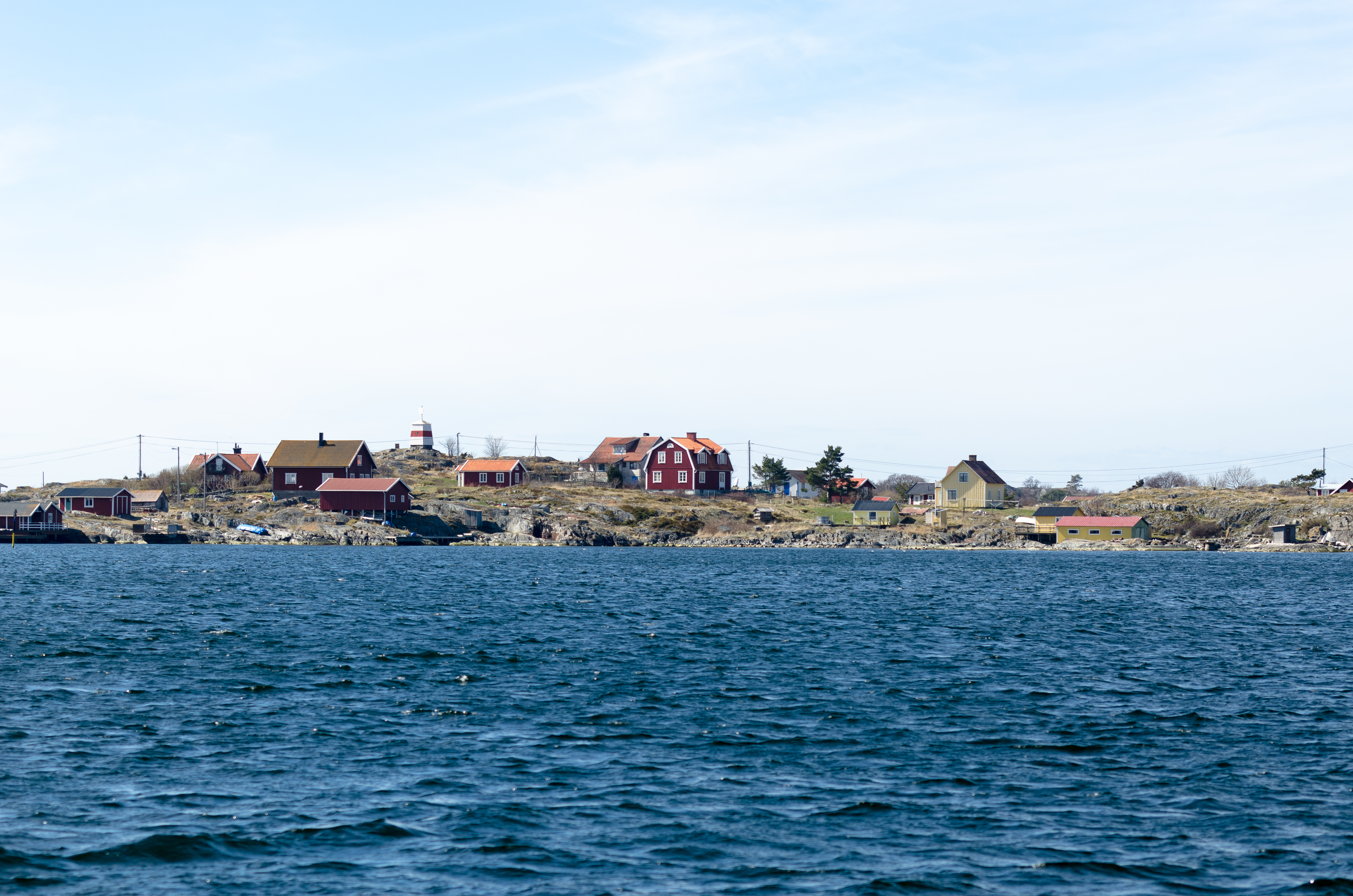 Krokskär